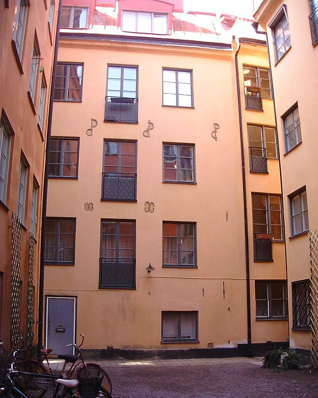 Small open space created in the 1940s between Peder Fredags Gränd and Staffan Sasses Gränd, Gamla stan, Stockholm.